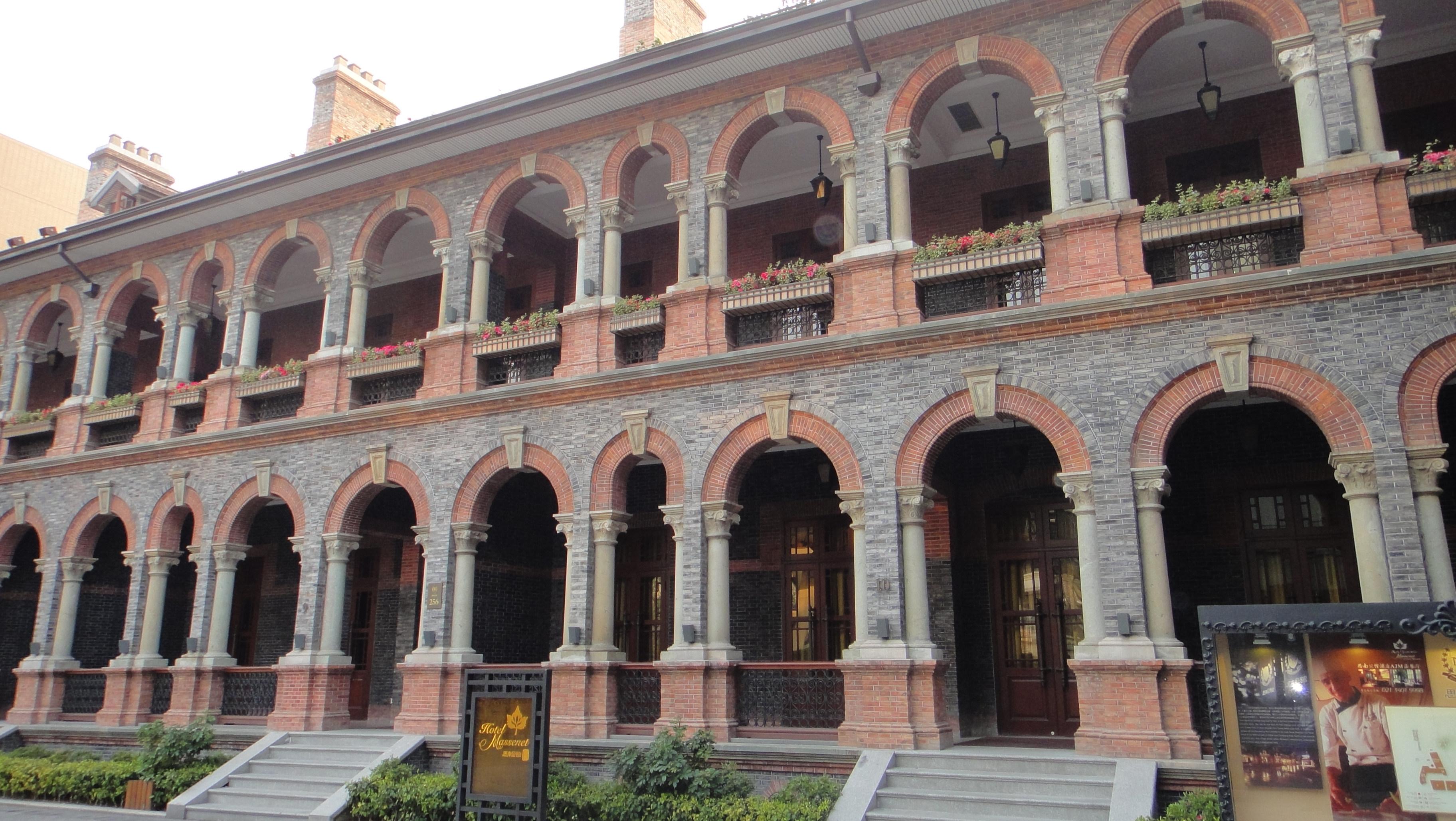 复建的外廊式建筑